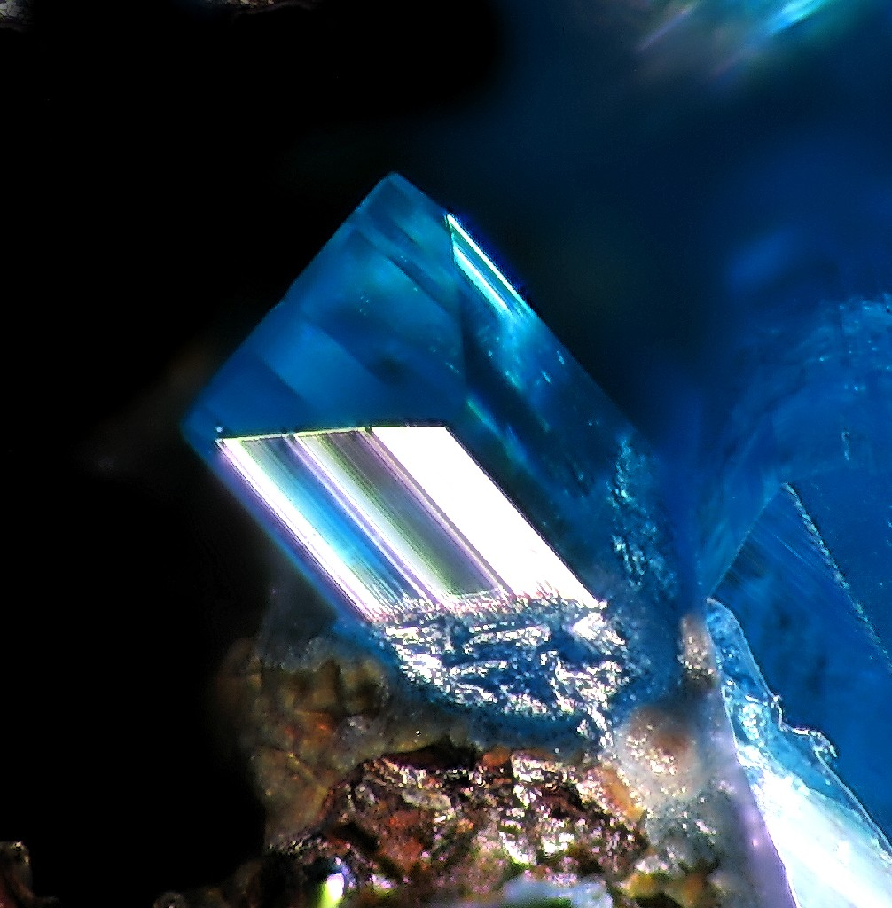 Caledonite Locality: Kirki Mine (Kirka Mine), Kirki (Kirka), Xánthi Prefecture, Thraki (Thrace; Thracia) Department, Greece Picture width 2 mm. Collection and photograph Christian Rewitzer